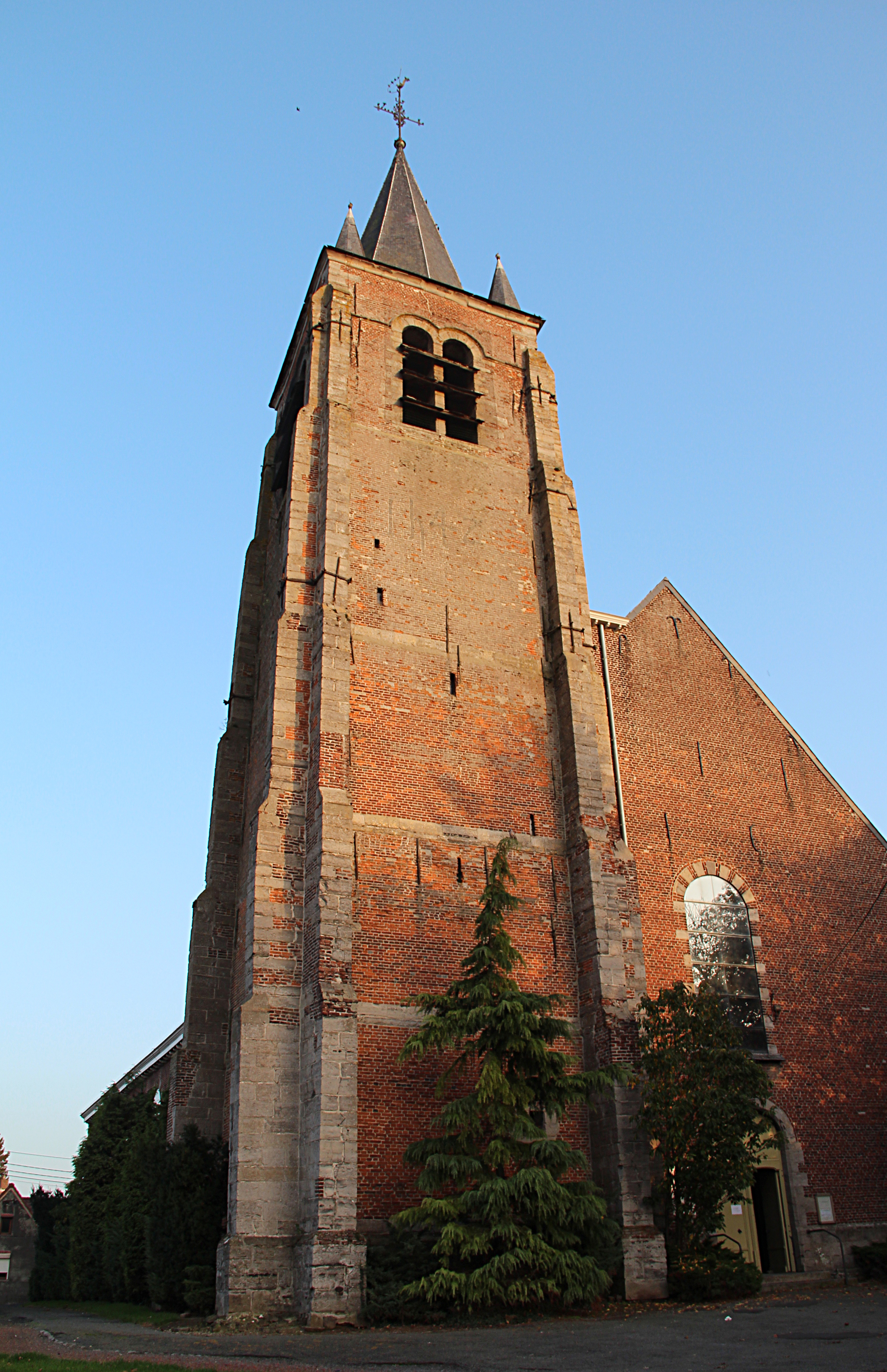 Blandain (Belgium), the church of Saint Eletherius (XVIIIth century) and its square tower dated 1542.